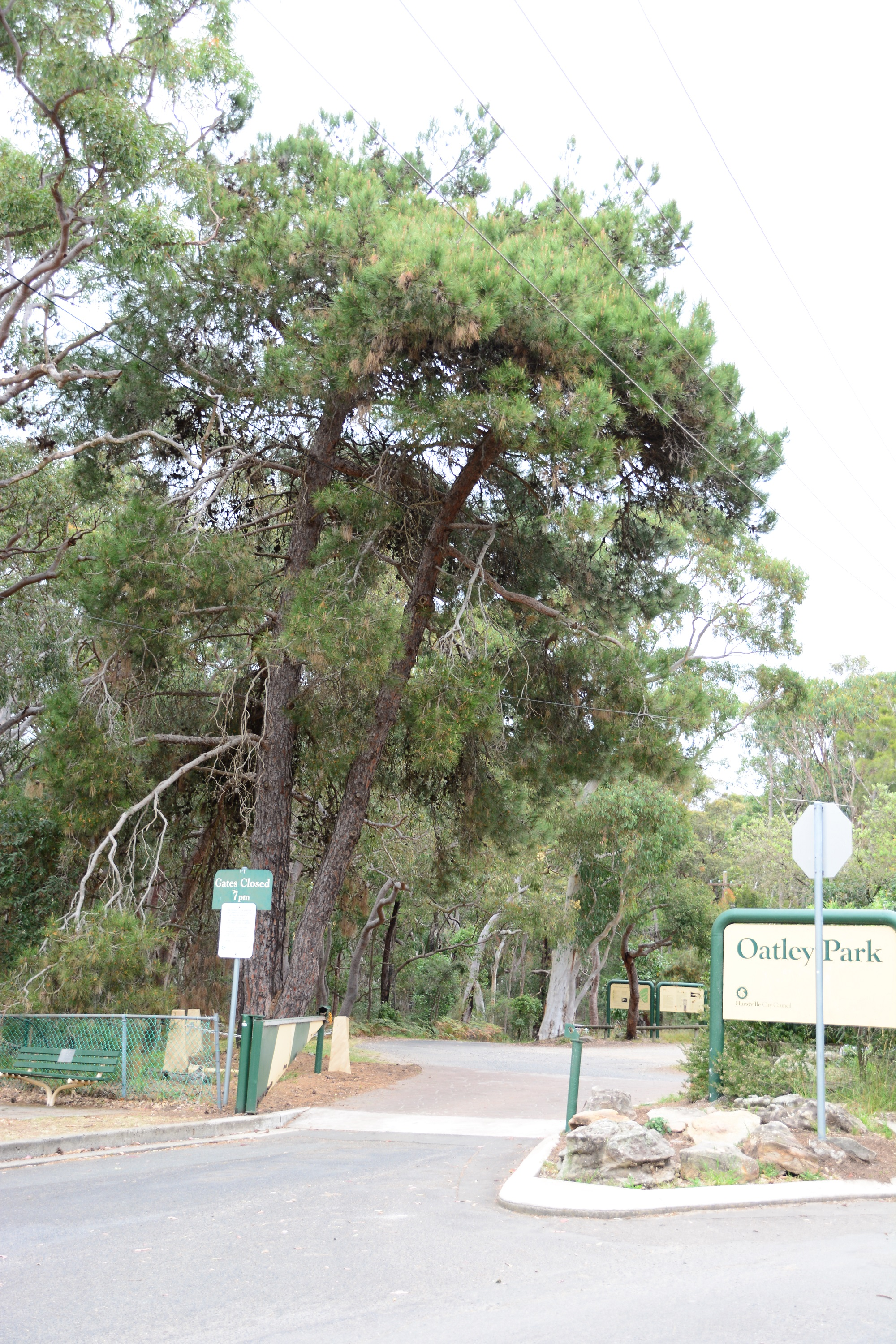 According to plaques at its base, this pine tree at the Oatley Park Avenue entrance to Oatley Park, NSW, was grown from pine cones taken from Lone Pine, Gallipoli.